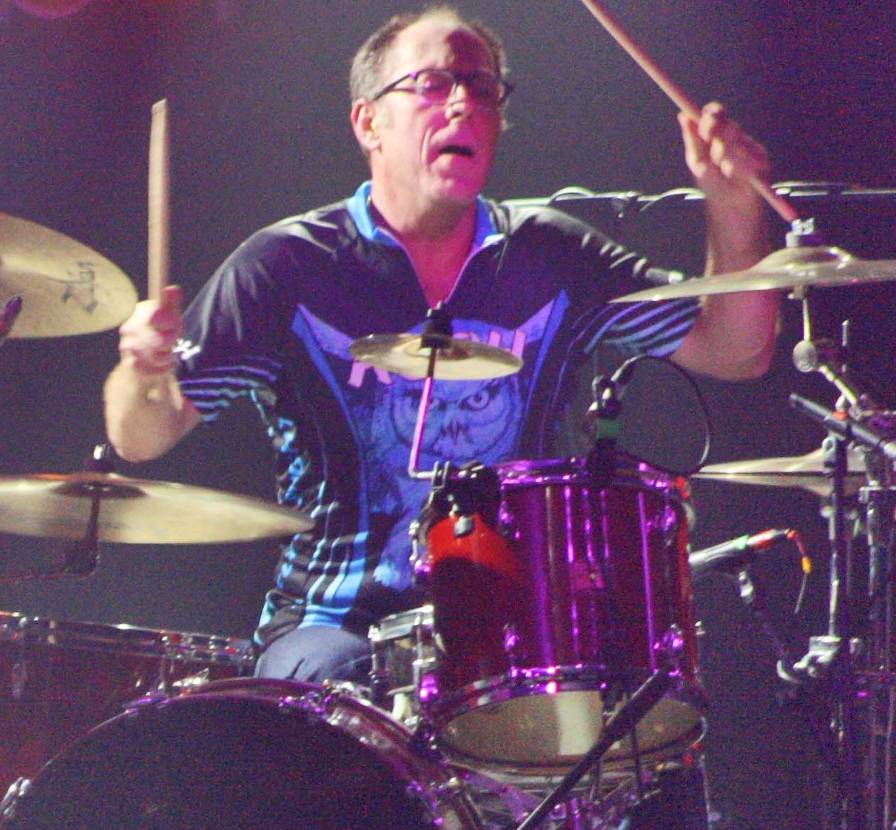 David Lovering from Pixies at Teatro La Cúpula.